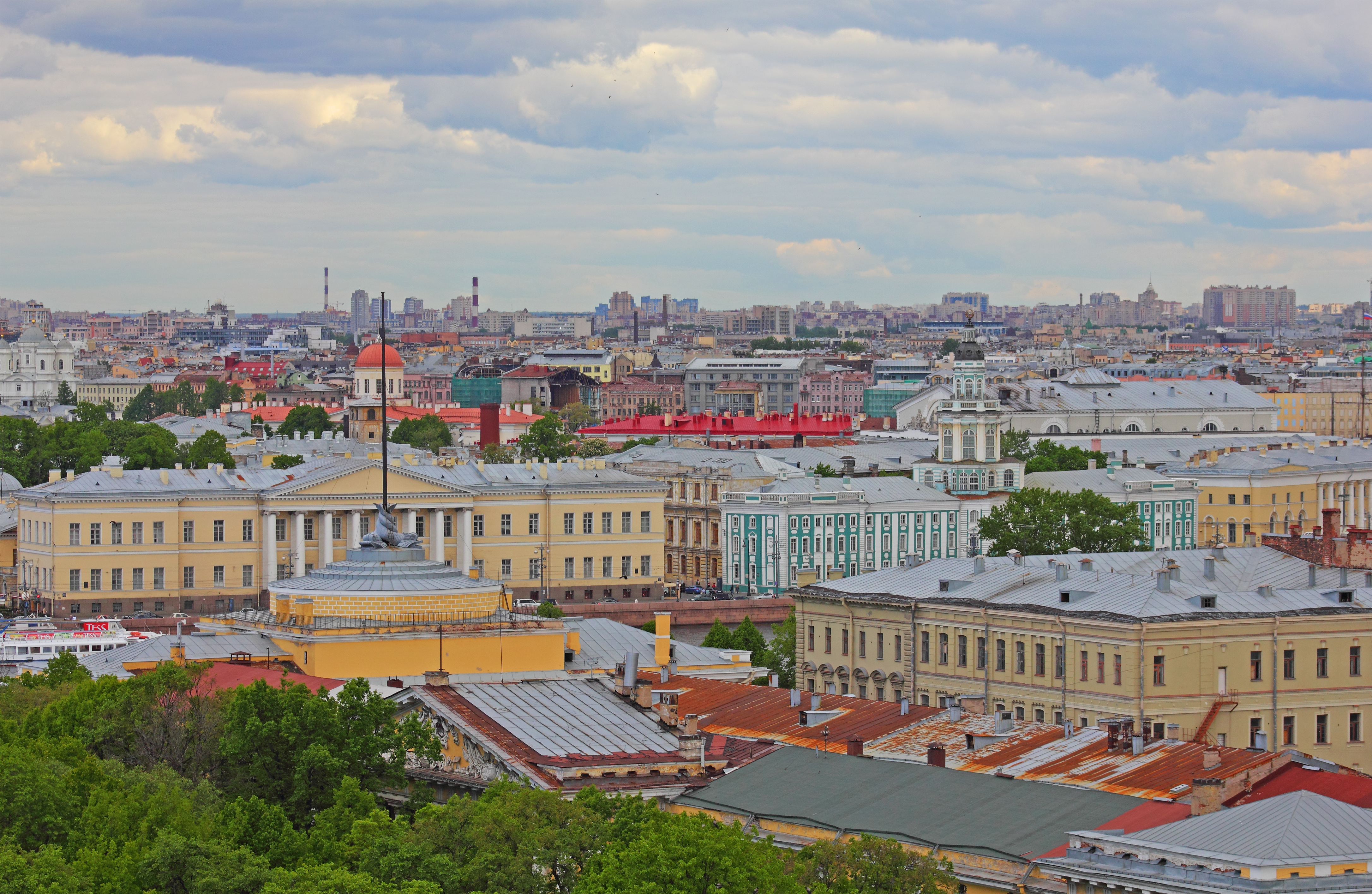 St. Petersburg, Russia. Views from the visitor's gallery at the Colonnade of the St. Isaac's Cathedral.